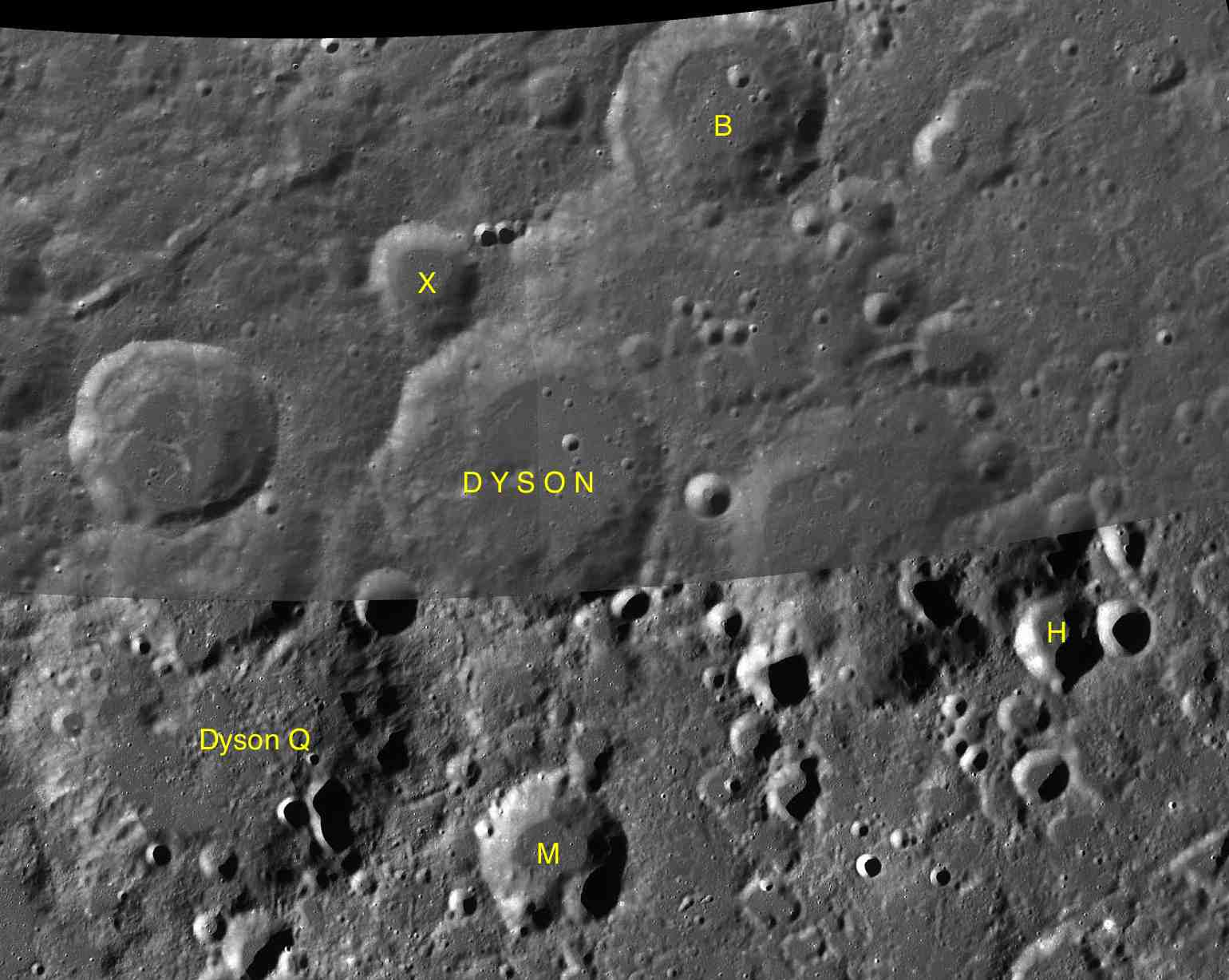 Part of the chart LAC-20 used for the presentation